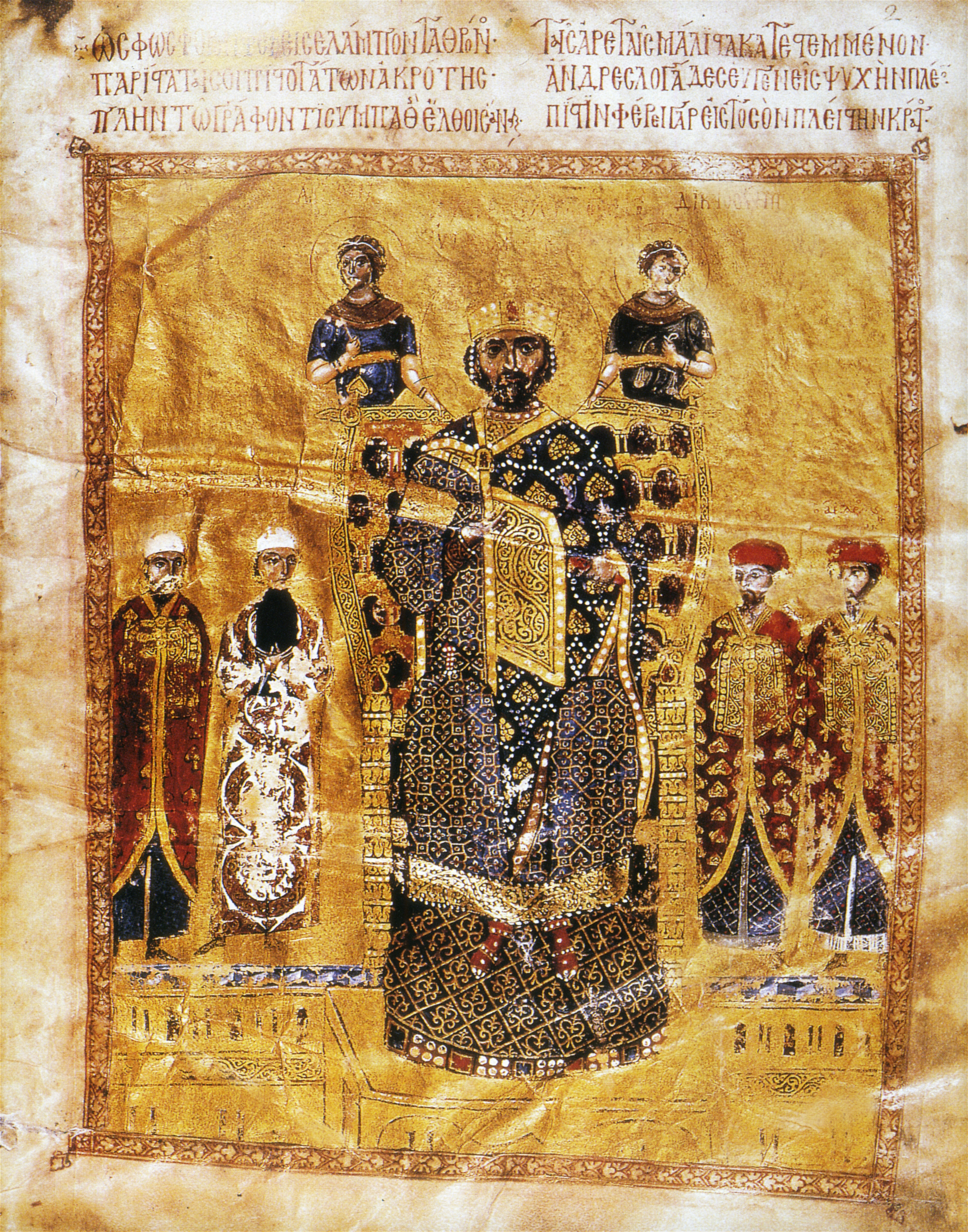 Nicephorus III or Michael VII